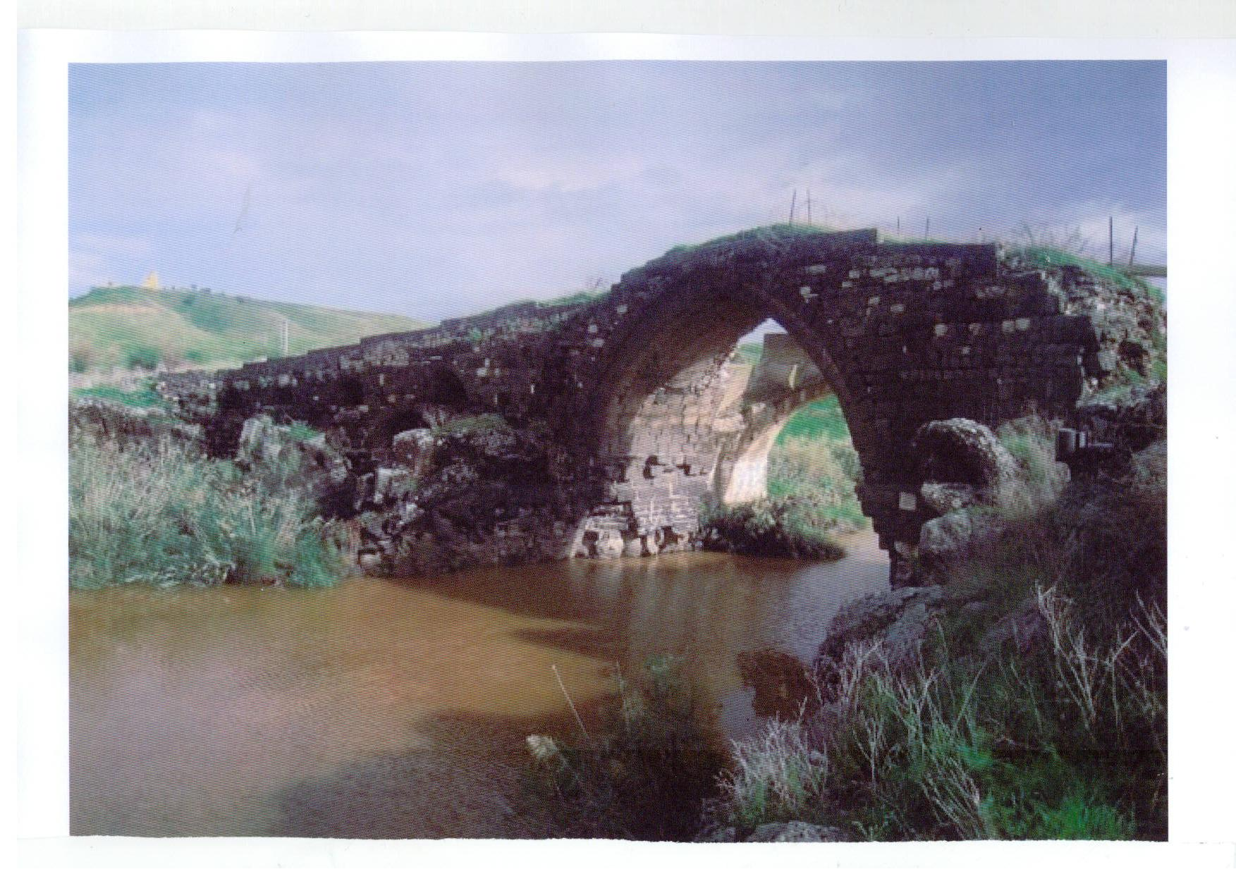 Geography of Israel